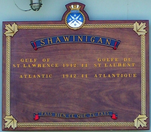 Plaque at portside and outside on the wheelhouse of HMCS Shawinigan (MM 704). The plaque bears the crest of the ship, the honours of its predecessor in name, the HMCS Shawinigan (K136), and a French translation of the latin motto of the city of Shawinigan, age quod agis. Photo taken in Rimouski harbour, summer 2009.